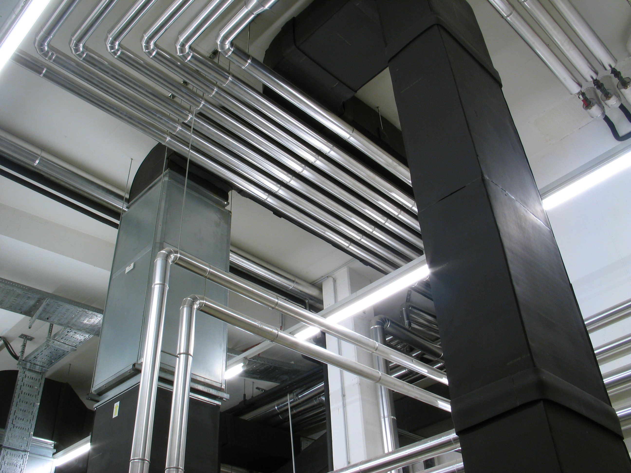 Piping of a boiler-room.